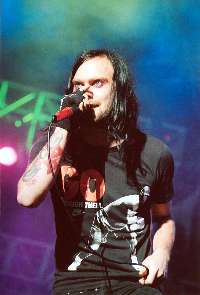 Bert McCracken, lead singer of the American rock band The Used, performing at Street Scene in San Diego, California on July 30, 2005.